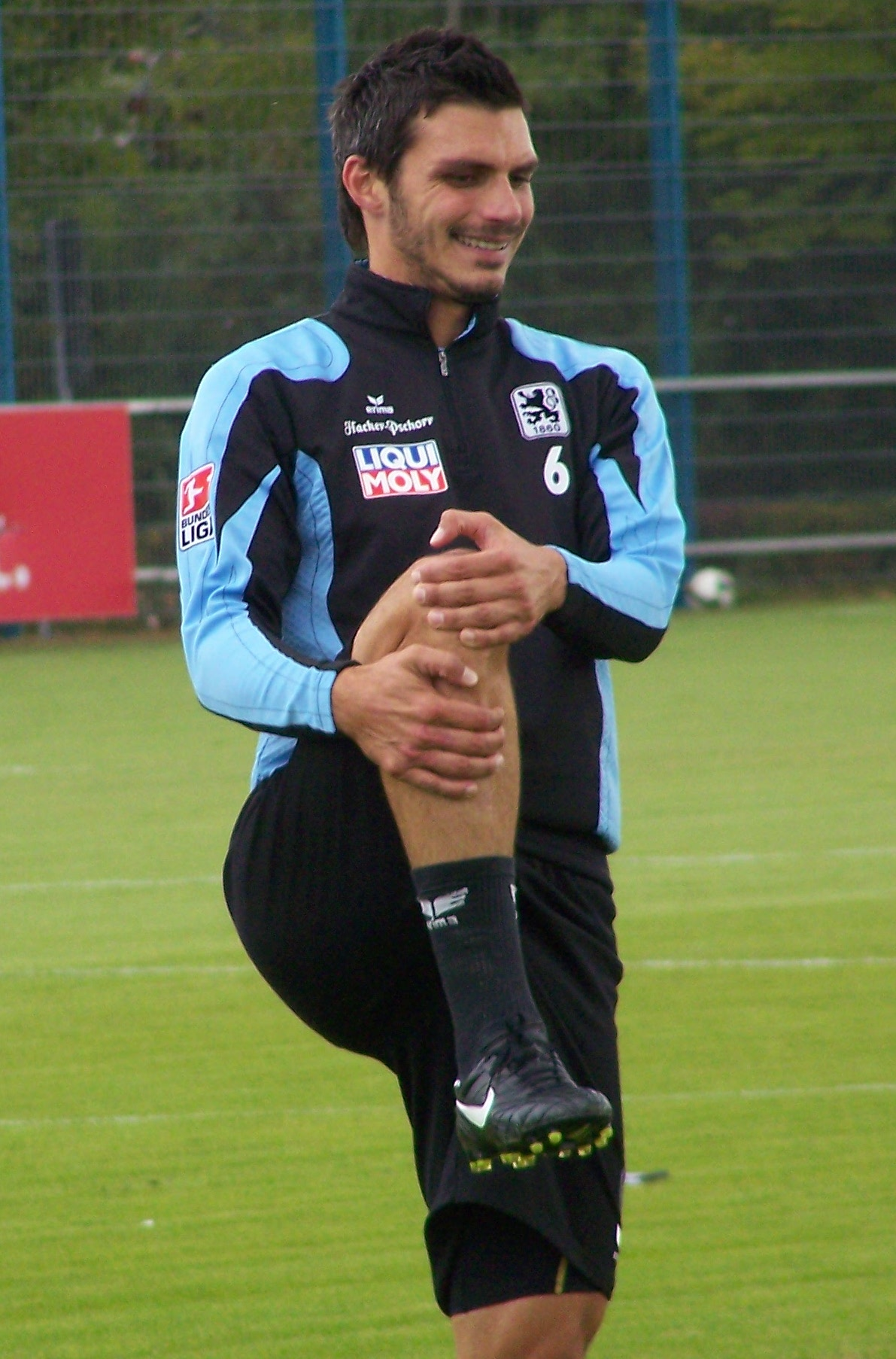 Mathieu Beda, 1860 munich, training